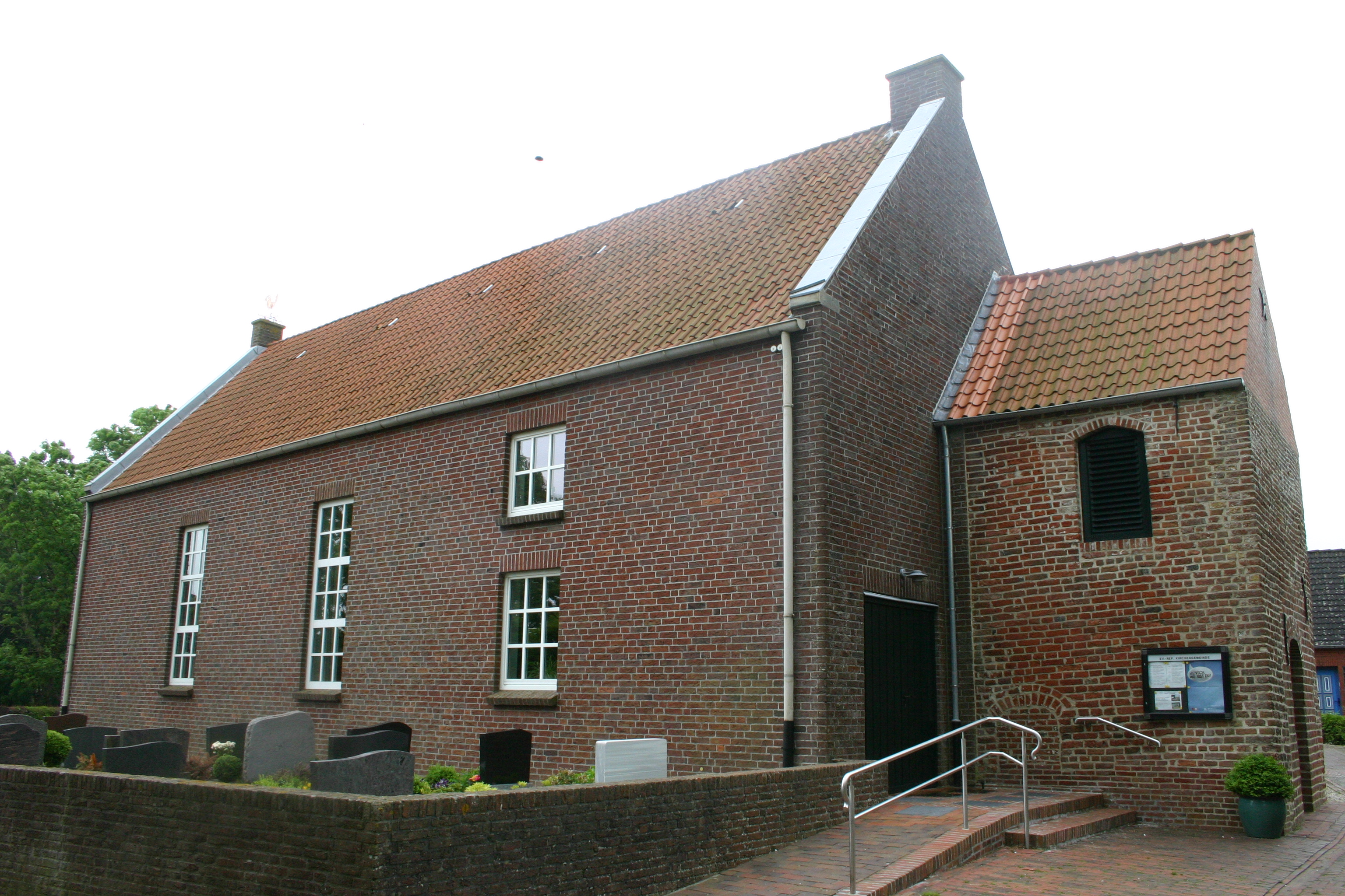 Historic St. Mary Church in Hamswehrum, district of Aurich, East Frisia, Germany